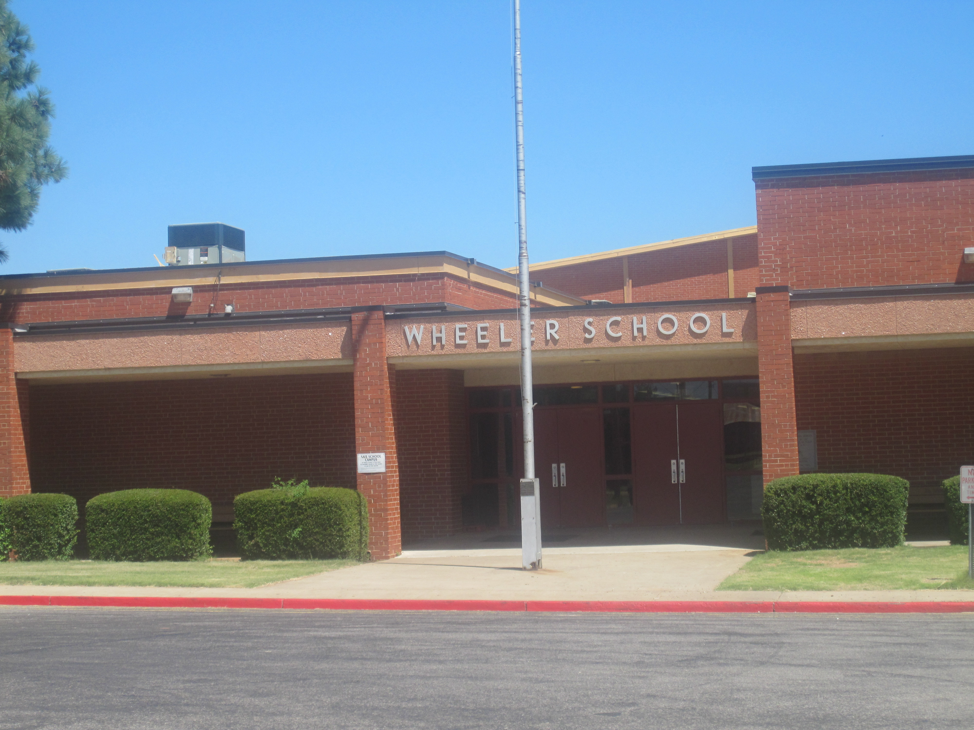 I took photo with Canon camera in Wheeler County, TX.